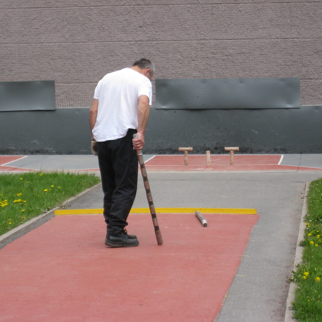 Gorodki player at St. Petersburg, Russia